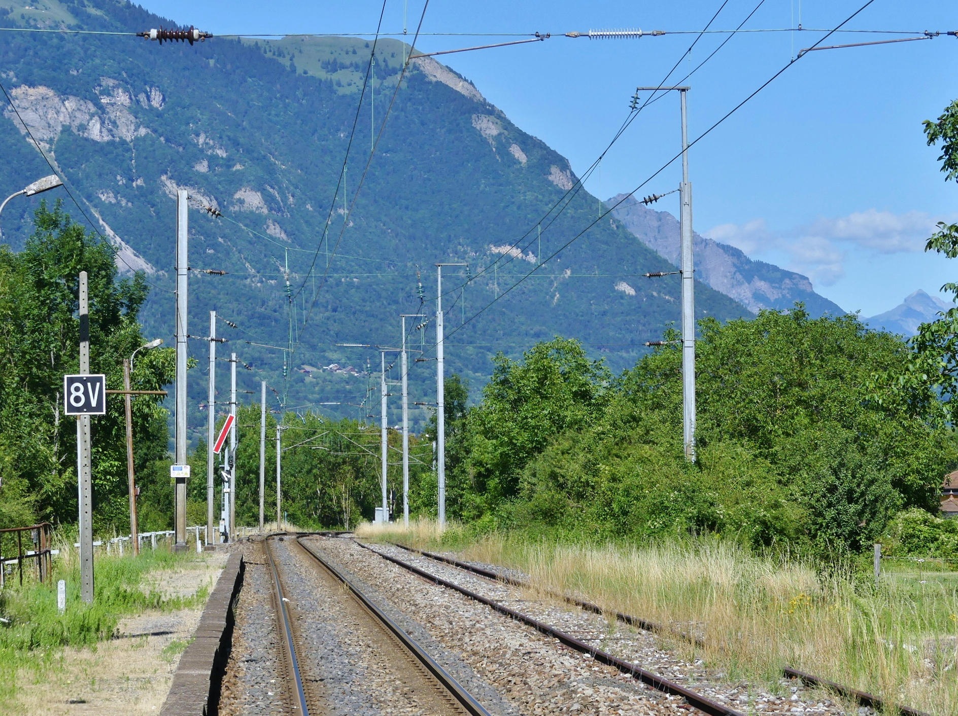 Sight, in 2017, of a old railway mecanic semaphore signal, when leaving Saint-Pierre-en-Faucigny railway station in the direction of Chamonix in Haute-Savoie, France.